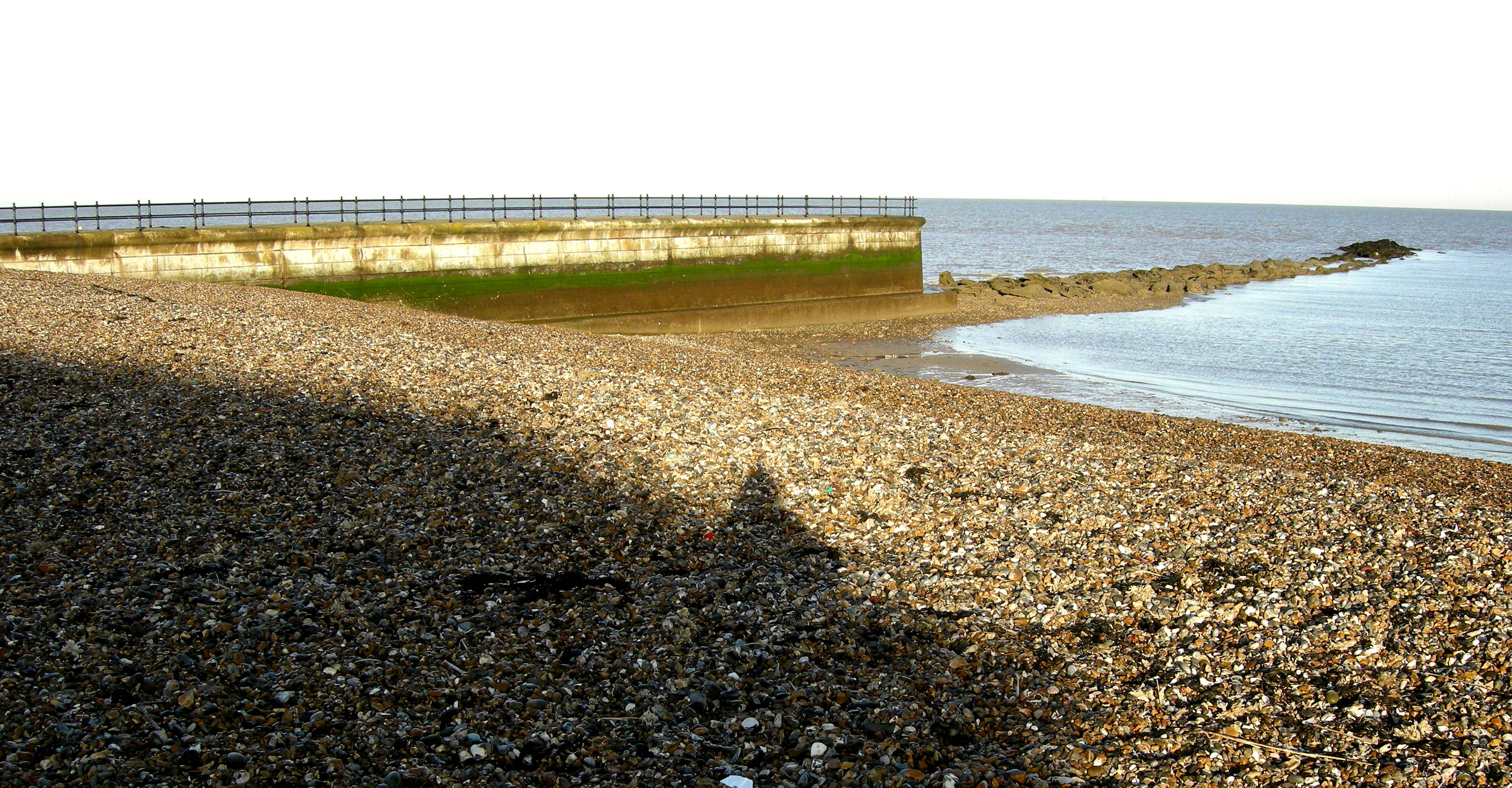 Site of abandoned and drowned village Hampton-on-Sea, Herne Bay, Kent, England. Source of identification of site: Martin Easdown, Adventures in Oysterville, (Michael's Bookshop, Ramsgate, 2008)